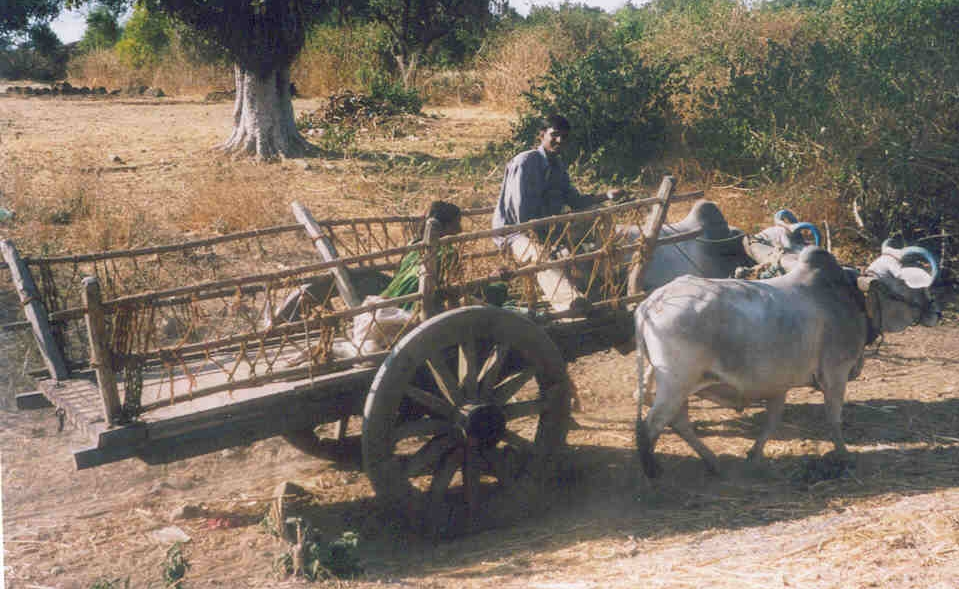 Bullock cart in India